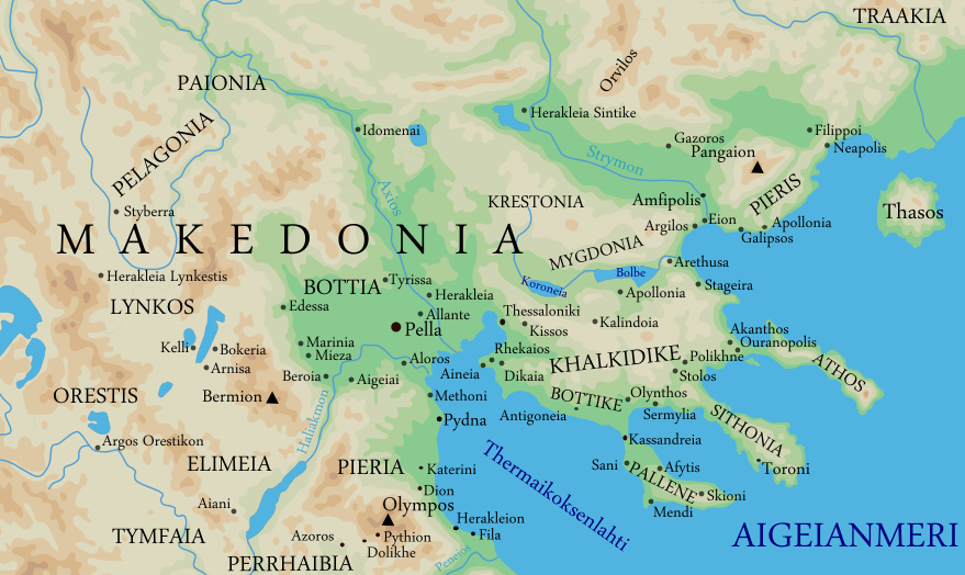 Ancient Macedon